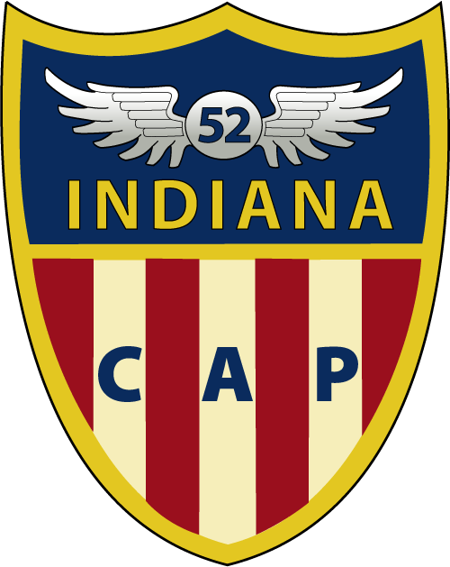 Graphical representation of the Indiana Wing patch (patch of a military organization).